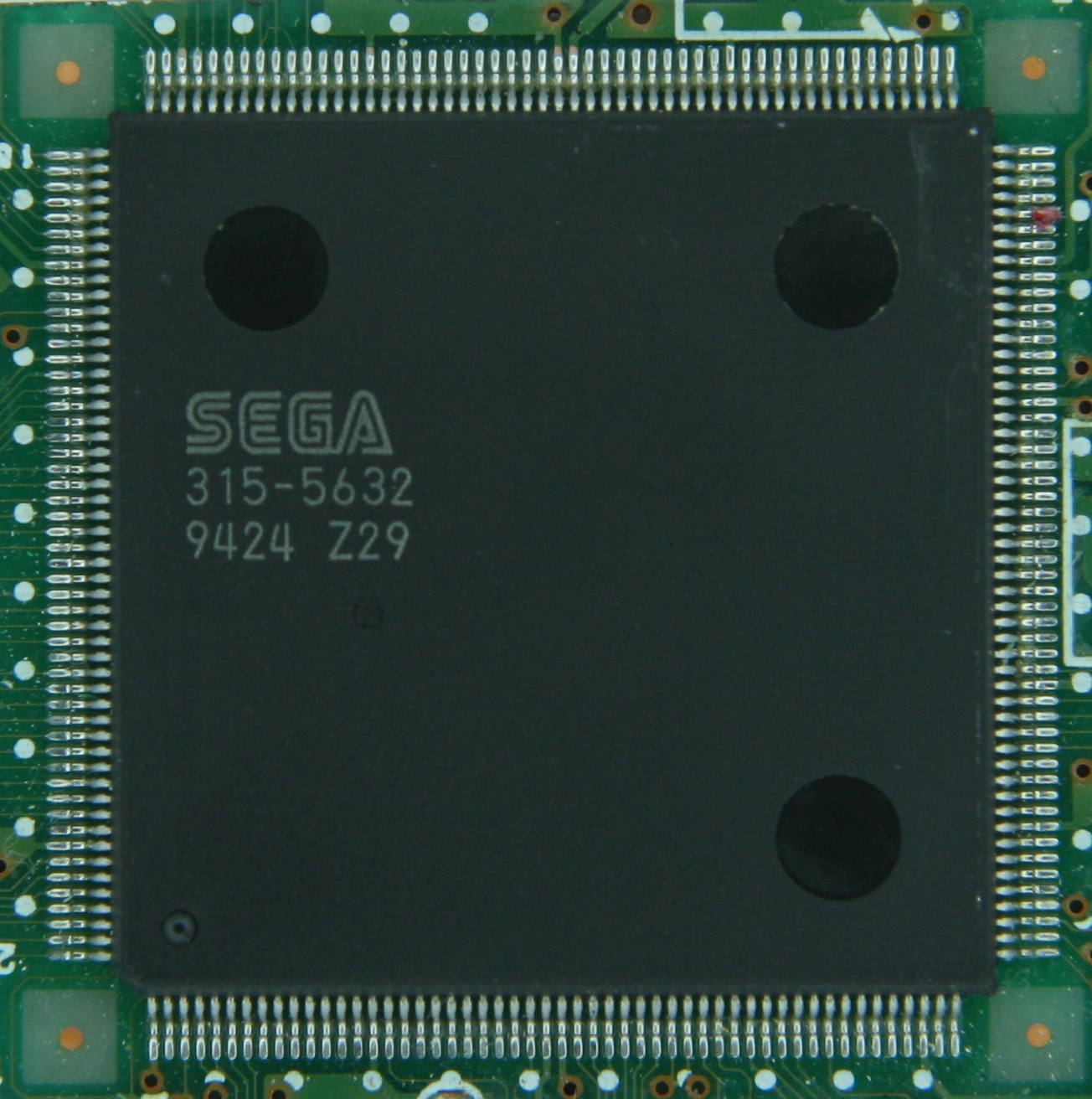 IC photo